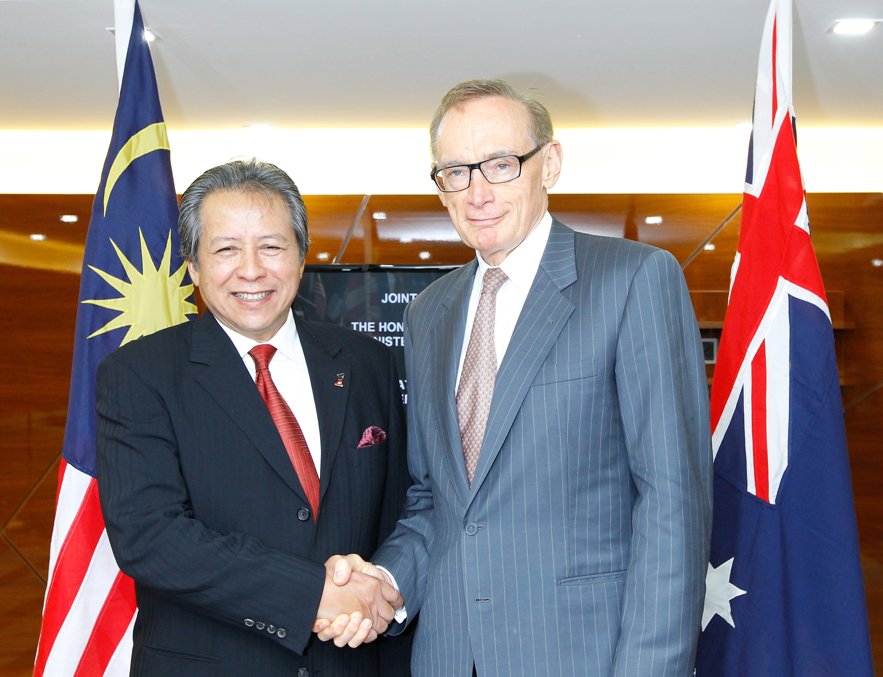 Senator Carr meeting with Minister of Foreign Affairs Dato Sri Anifah Aman